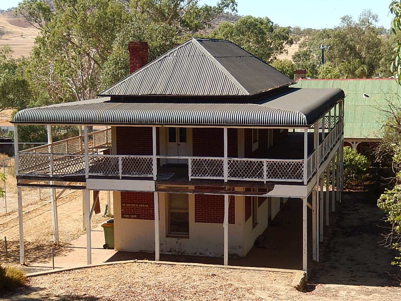 Stirling Terrace, Toodyay. Part of the Roman Catholic precinct and completed in the early 1860s